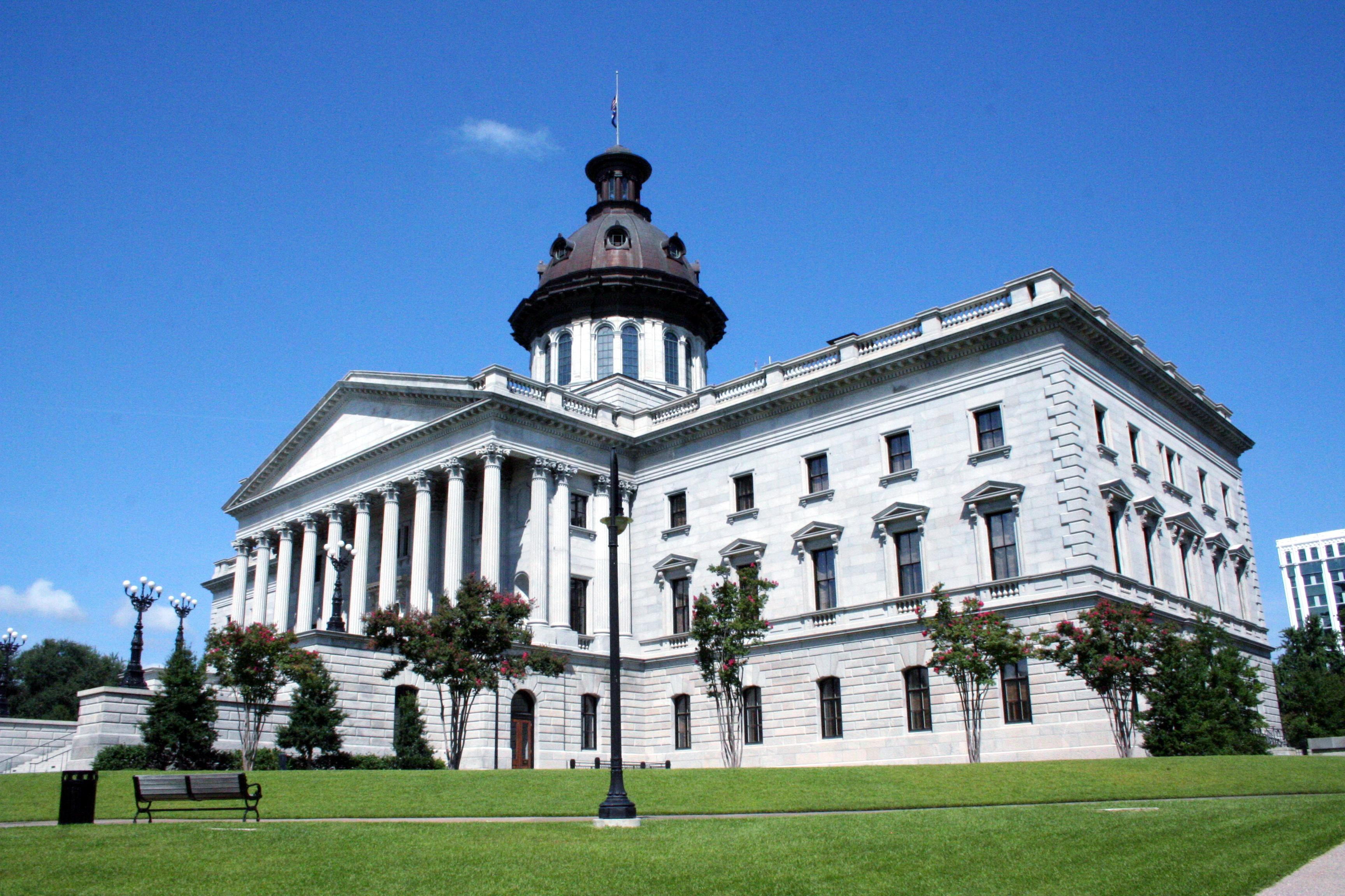 South Carolina State House, post 1998 renovations